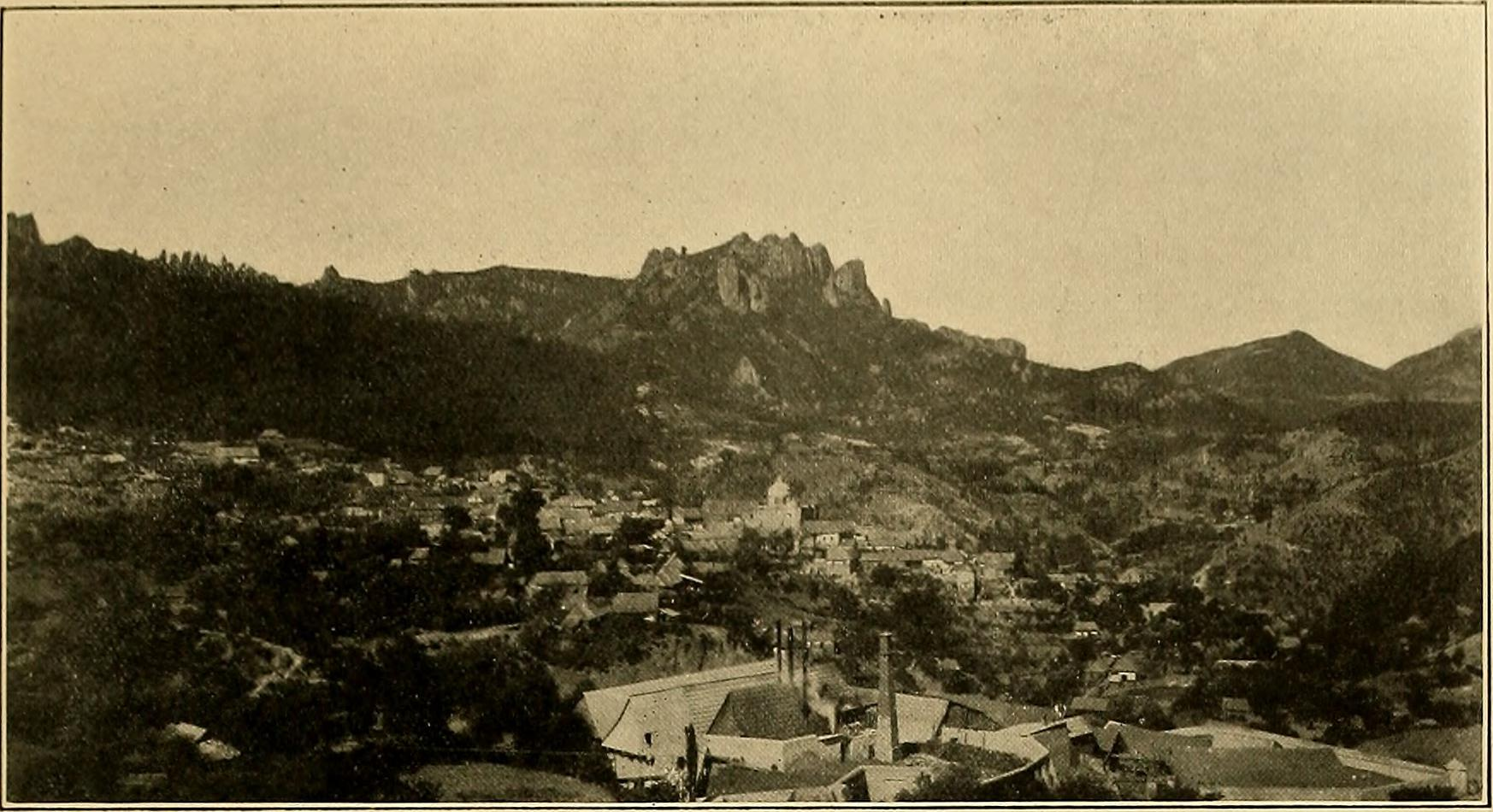 Identifier: mexicohistoryofi00wrig Title: Mexico, a history of its progress and development in one hundred years Year: 1911 (1910s) Authors: Wright, Marie Robinson, 1866-1914 Subjects: Publisher: Philadelphia, G. Barrie & sons [etc., etc.] View Book Page: Book Viewer About This Book: Catalog Entry View All Images: All Images From Book Click here to view book online to see this illustration in context in a browseable online version of this book. Text Appearing Before Image: ' Text Appearing After Image: PANORAMA OF MINERAL DEL CHICO. CHAPTER XVII HIDALGO RICHLY endowed by Nature, the State of Hidalgo contains throughout itsextent, rich metalliferous deposits exceeding the wealth of Ormuz or ofInd. The innumerable enterprises for developing this country have producedmarvellous results in mining its great resources. Besides silver ore, lead, gold and iron, some precious stones abound. It isrich in woods and luxurious verdure. This State bears the name of the great patriot, Hidalgo. It has a cluster ofprosperous cities, El Salto, San Antonio, Marquez, Nopala, Cazbero, along thelines of the Mexican Central, Pachuca the busy capital, Tlaxcoapan, Rosal,Temoaya and Concepcion are on a branch line. It is a comparatively smallState but it ranks as one of great importance, being a prolific source of agricul-ture and manufacture as well as mineral wealth, which has attracted the atten-tion of the world. With a splendid chain of railroads and tramways, all parts of the State are easy to reach. 3